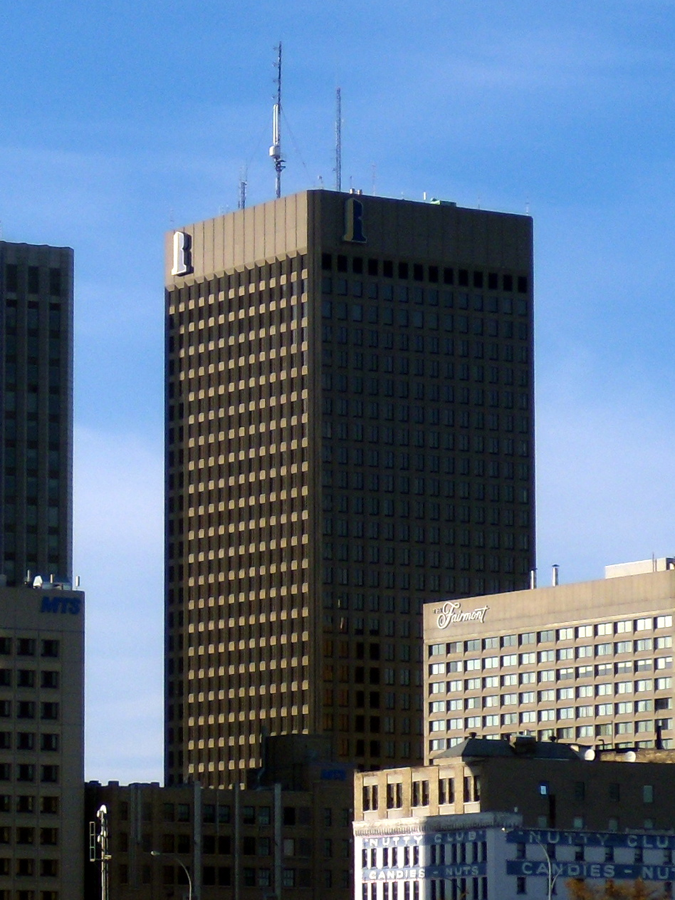 Richardson building, Winnipeg MB